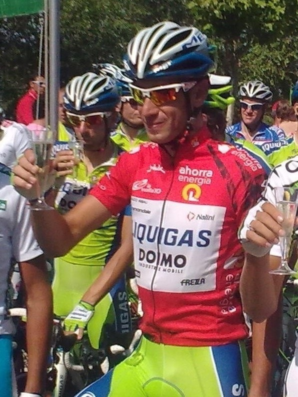 Vincenzo Nibali in the Vuelta a España 2010.